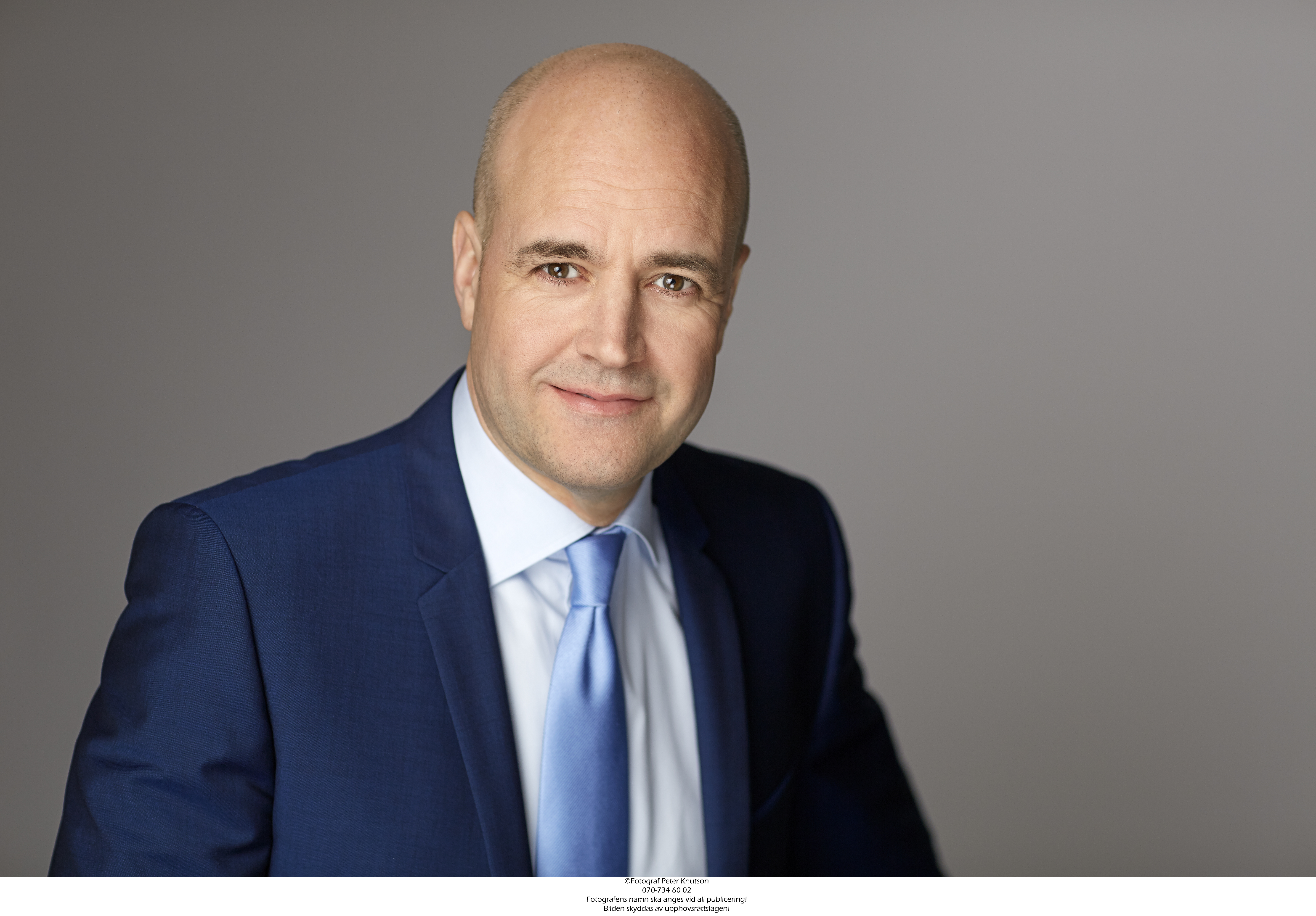 Copyright Fotograf Peter Knutson 070-734 60 02 The photographer's name must be quoted in any publication. The image is protected by copyright law.